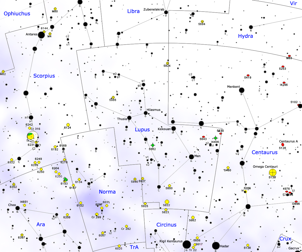 Map of lupus